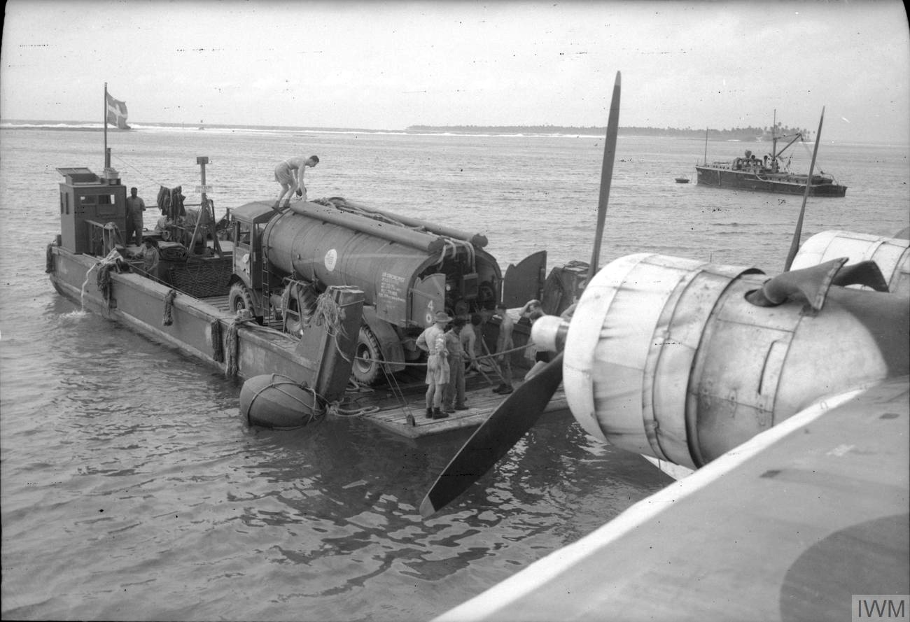 Royal Air Force Operations in the Far East, 1941-1945. A Short Sunderland GR Mark V of No. 205 Squadron RAF Detachment, moored off Direction Island, Cocos Islands, about to be refuelled from a petrol tanker embarked on board a Tank Landing Craft Landing Craft, Mechanized(?).